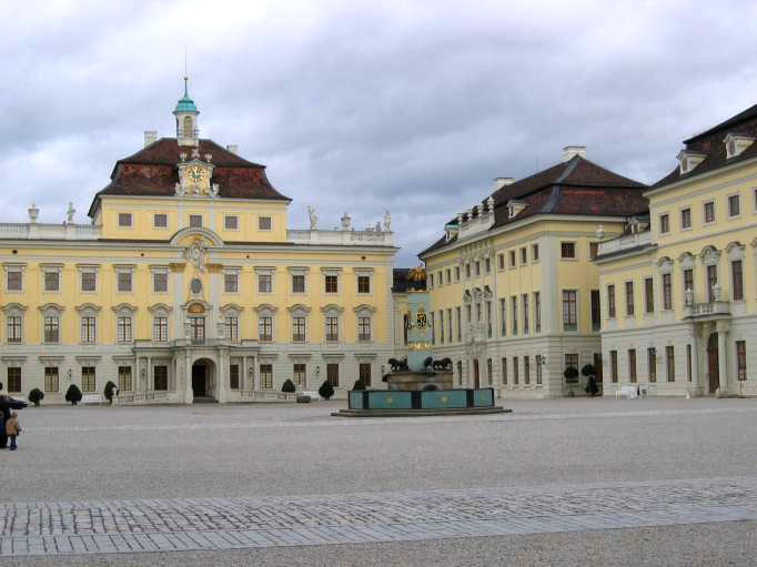 Ludwigsburg palace, "Baroque in Bloom", interior courtyard